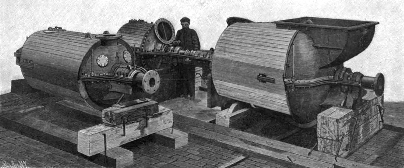 One set of the turbine engines of the destroyer HMS Viper (launched 1899). The engraving shows a low-pressure turbine and reversing engine on one shaft, and a high pressure engine on the other. A like set of turbines was installed on the other side of the ship, the vessel thus having four turbines, all independent of one another.